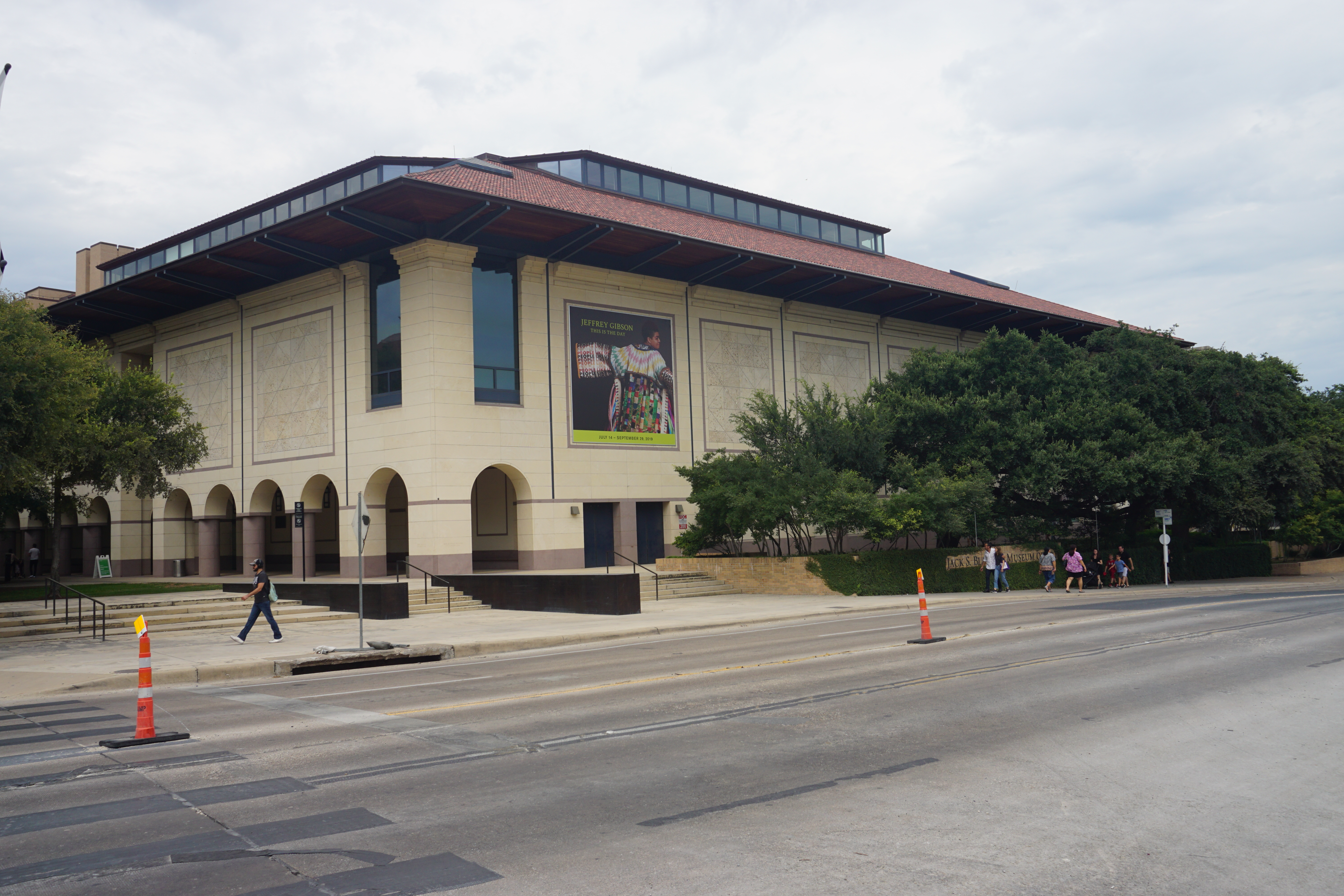 The Jack S. Blanton Museum of Art on the campus of the University of Texas at Austin in Austin, Texas (United States).